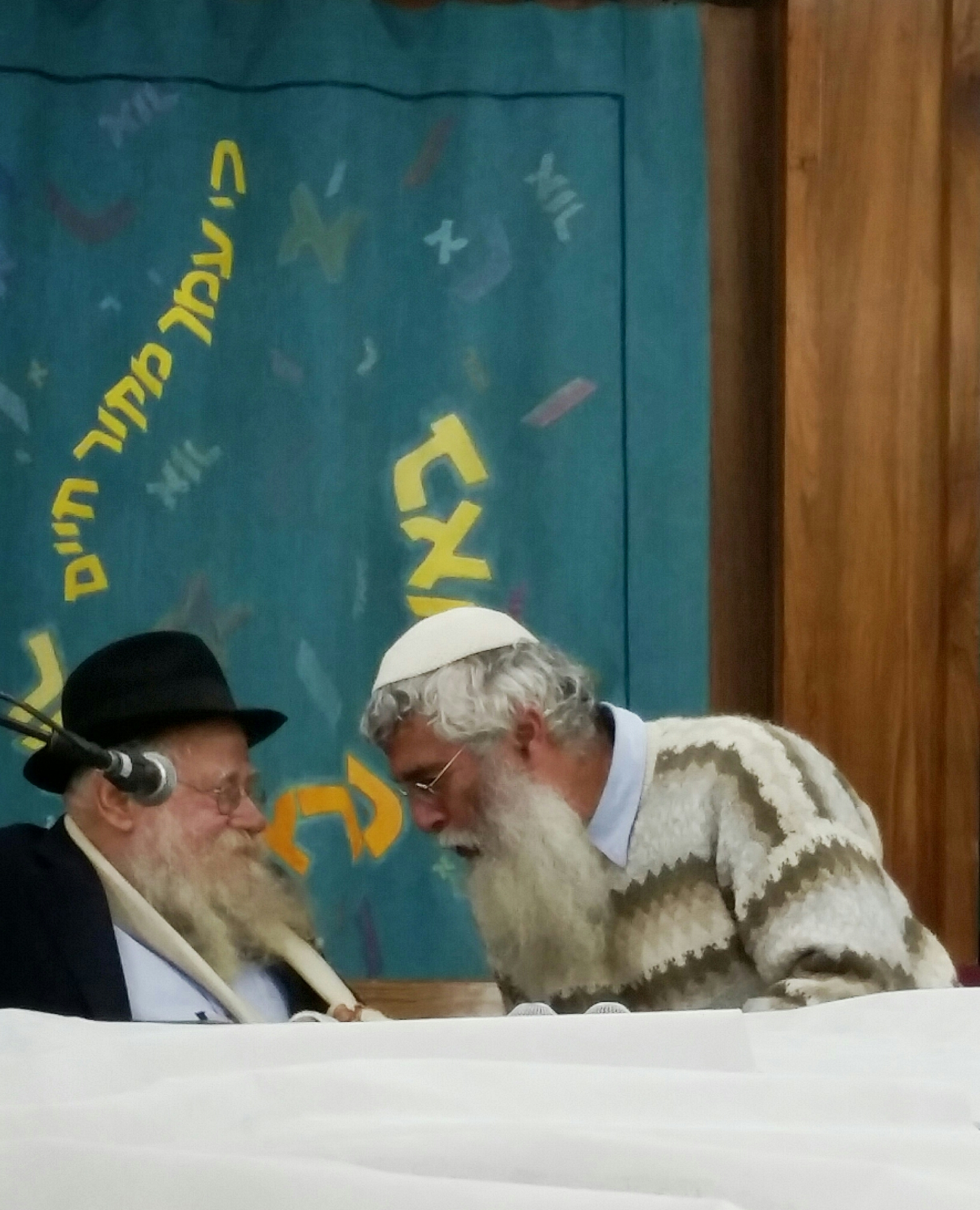 Rabbi Adin Even-Israel (Steinsaltz) and Rabbi Dov Singer in a hitva'adut at Yeshivat Makor Chaim, 2014